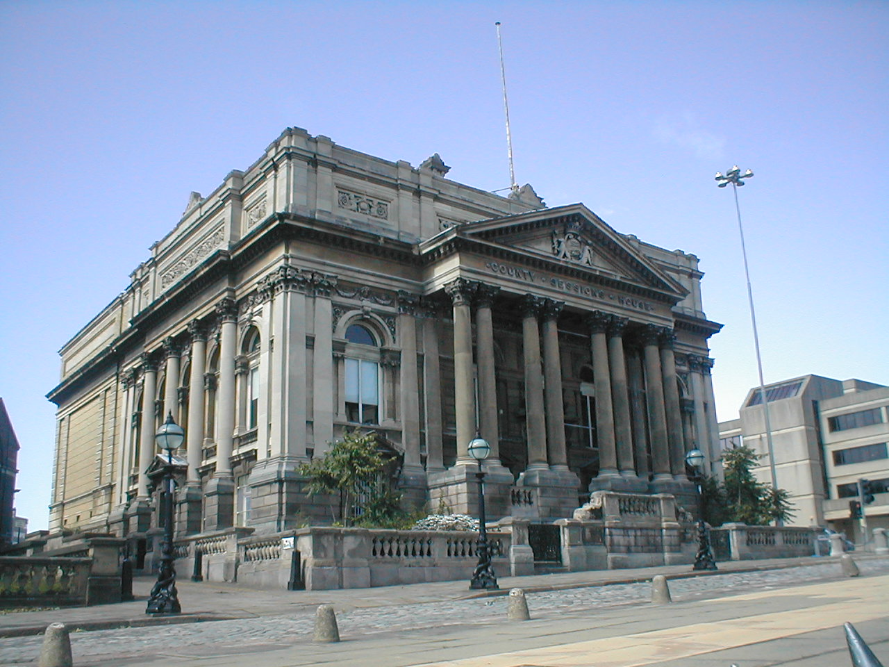 Photograph to show the County Sessions House in Liverpool.